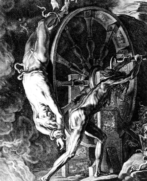 Íxion